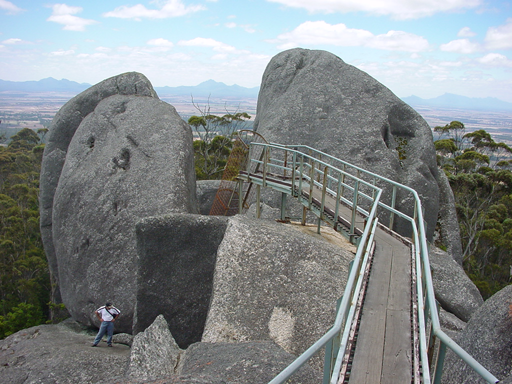 Castle Rock walkway and final climb, Western Australia.